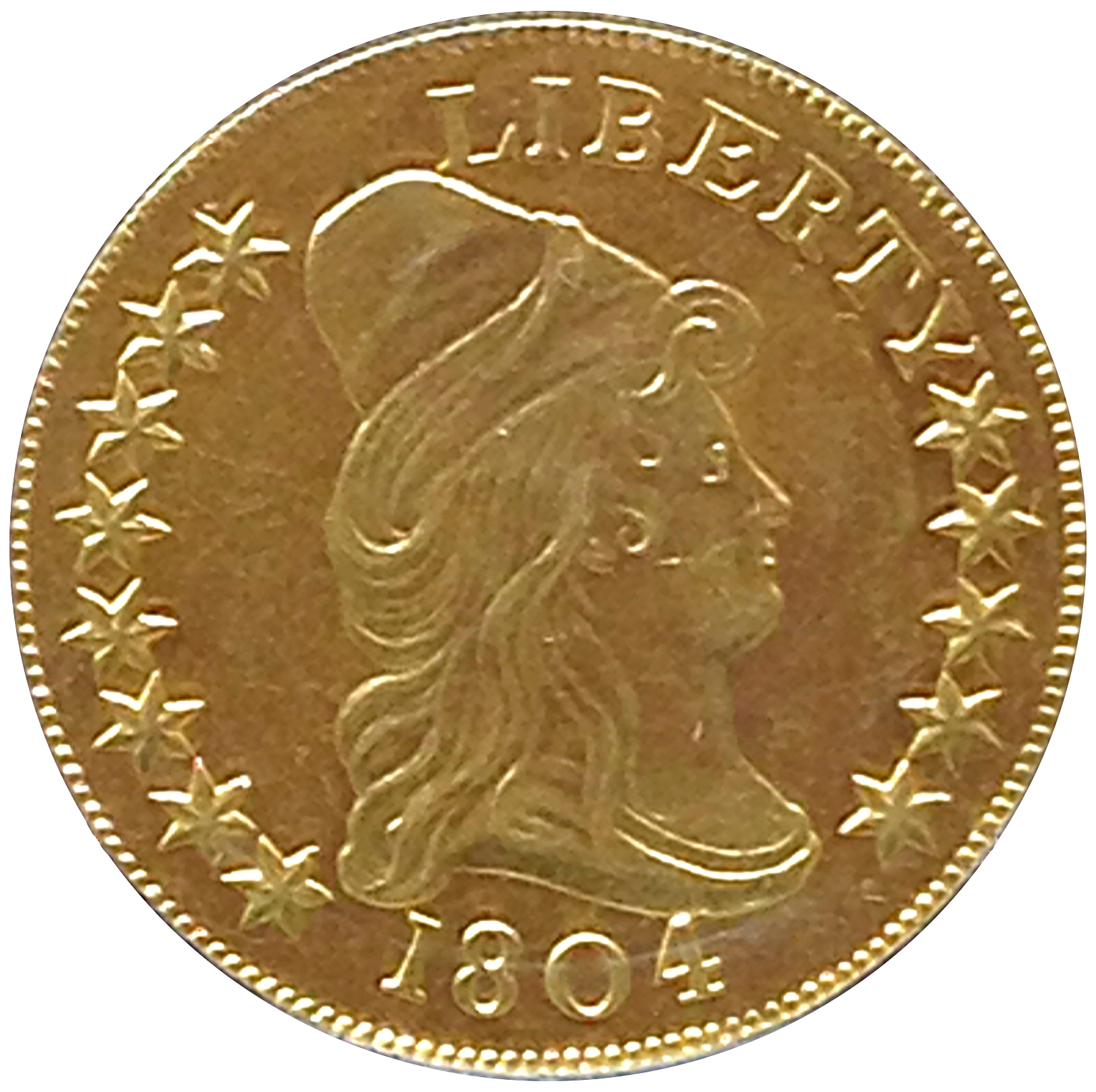 Only four are known of this 1804 "Plain 4" eagle.